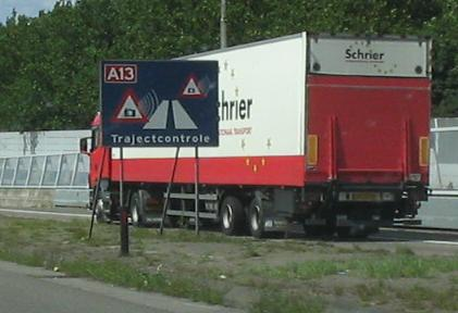 Road sign near Overschie, Netherlands, warning about average-speed measuring cameras.